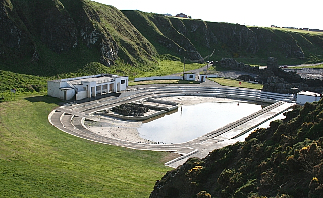 Tarlair Swimming Pool In its heyday a popular attraction, the pool now lies forlorn and abandoned.